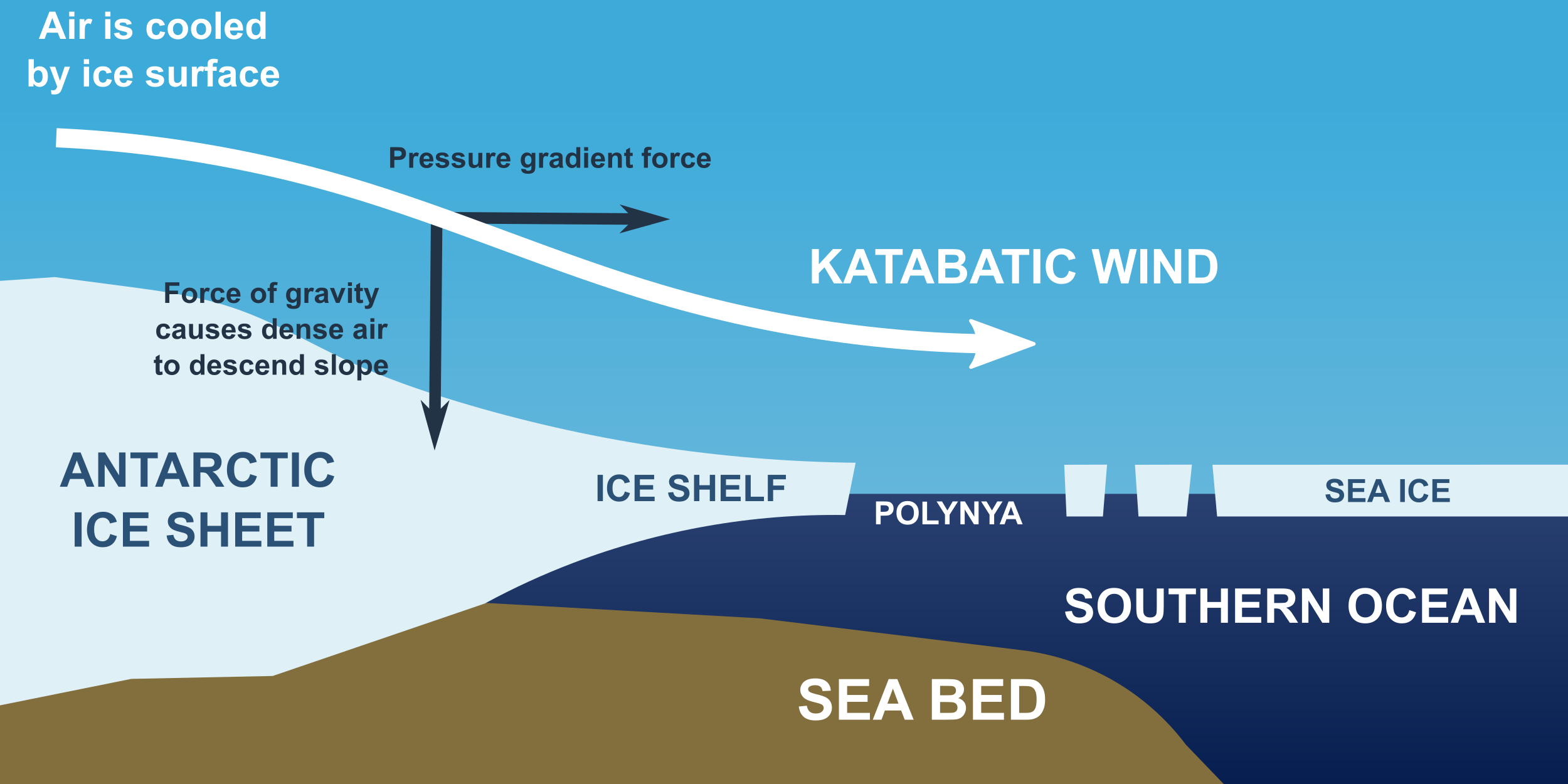 Png version of a diagram showing katabatic winds in Antarctica. Based off